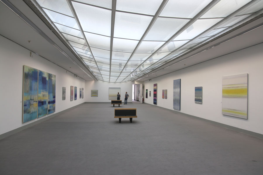 Obergeschoss, Upper floar of the museum with the exhibition "Bruno Kurz - Lichtakkorde" 2017